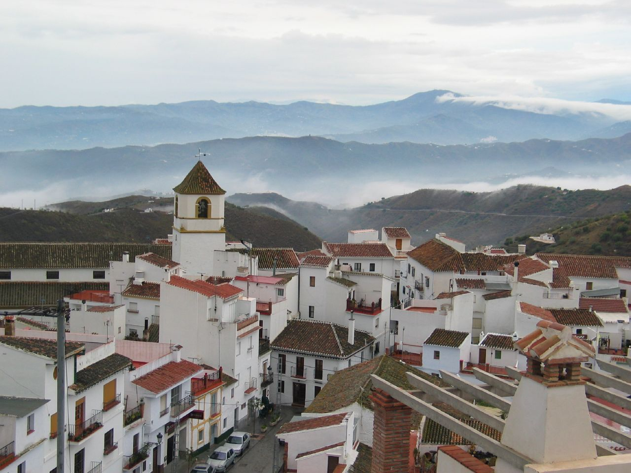 View of Canillas de Aceituno, Spain.